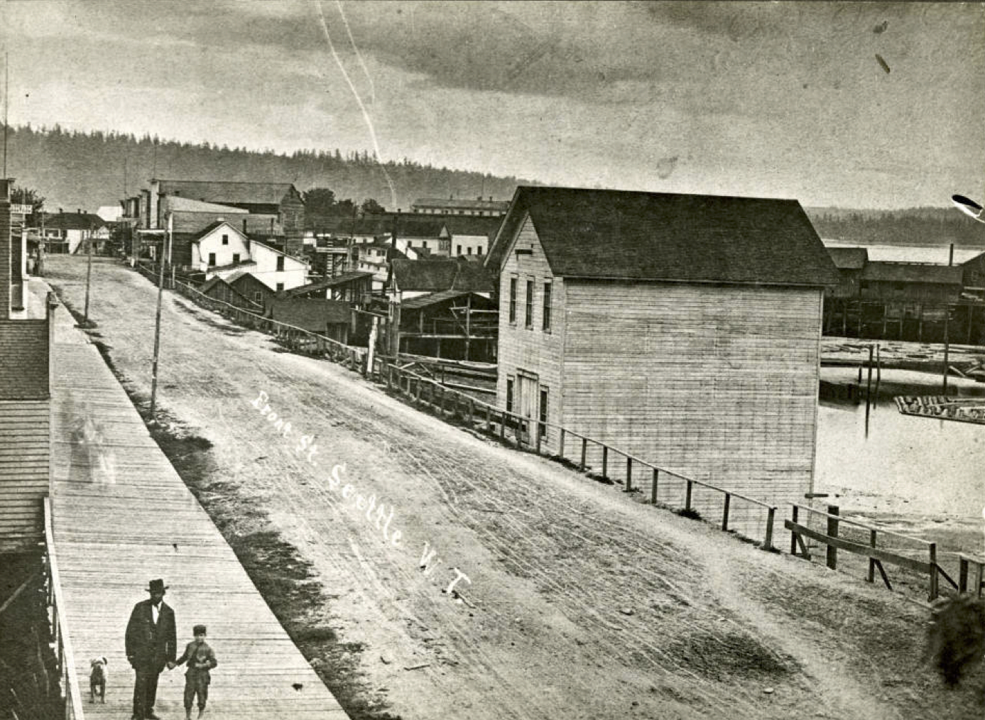 Front Street. 1880. Looking South from Madison Street. A. W. Pipler and son, Walter, in foreground. 1. Occidental Brotherhood Building. 2. Schmeig's Brewery. Occidental Brotherhood Building. Schweig's brewery (white building pointed roof). Zephyr (Steamer) on ship ways rear of brewery. Top center: roof of Arlington Hotel. Left side: A.W. Piper and Walter Piper. Caption on image: Peterson Bro. Photographers on bottom center. Front St. Seattle W.T. in center. Location is approximately 1st and Madison today.